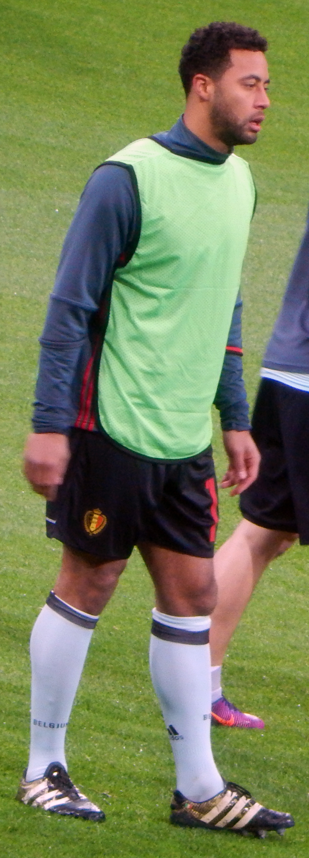 This photo was taken on March 28, 2017 during the exhibition game between Russia and Belgium. That game was held in Adler (City of Sochi) at the Fisht stadium.